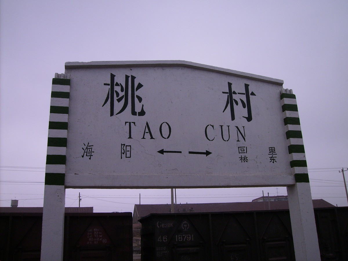 Plate of Taocun Railway Station, as start point of Taocun-Weihai Railway in Shandong, China PR